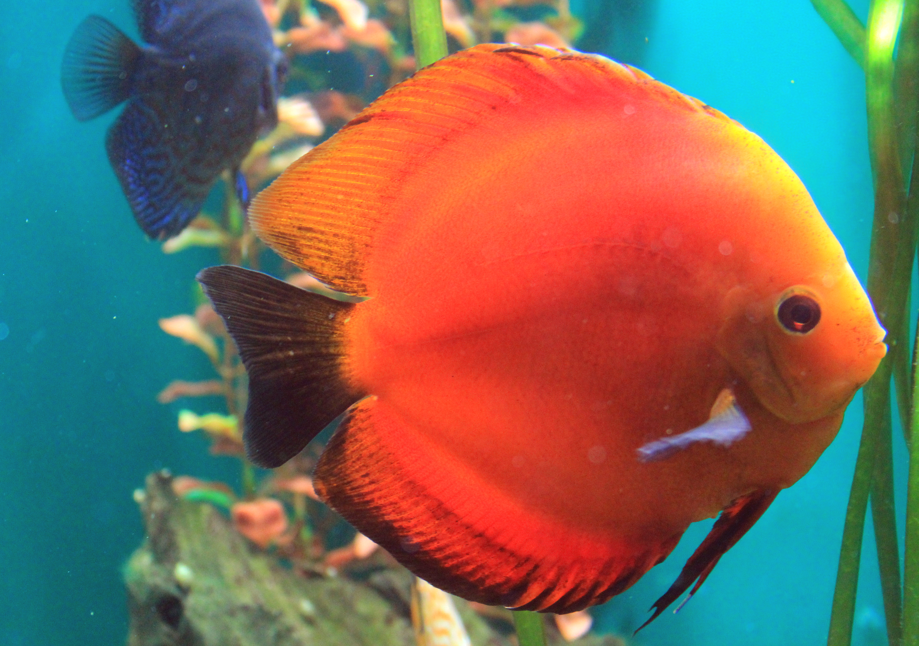 Fish Symphysodon discus, (Symphysodon discus) in Prague sea aquarium “Sea world”, Czech Republic Česky: Ryba terčovec červený, Symphysodon discus v pražském mořském akváriu Mořský svět v Holešovicích